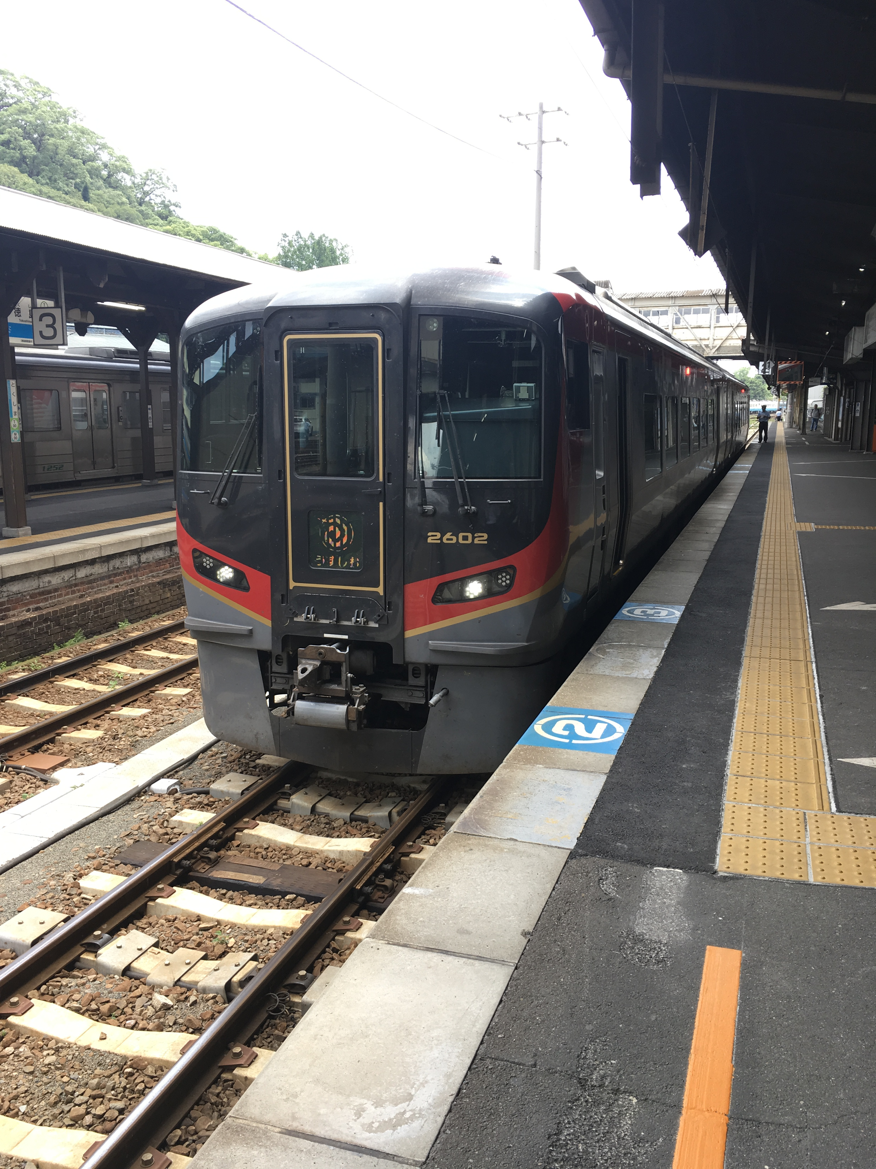 In Tokushima Station，the 2600 series train 2602+2652 is waiting for departure.